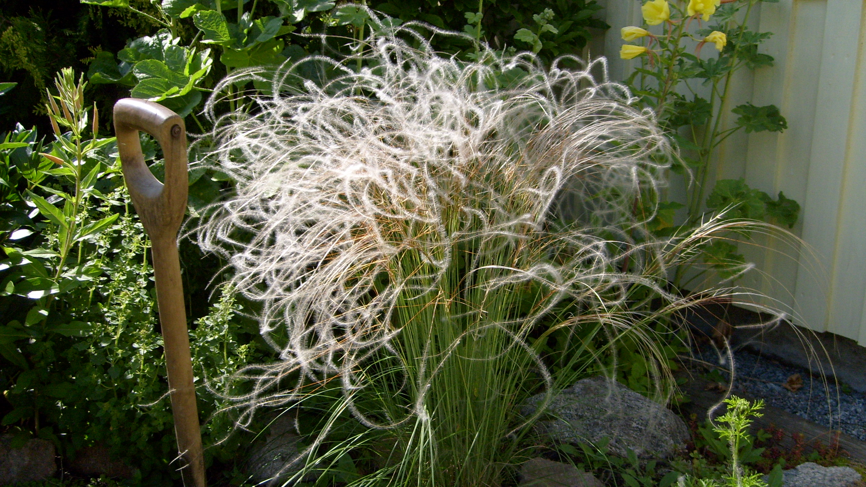 Stipa Pennata as grown in a garden in south-western Sweden.